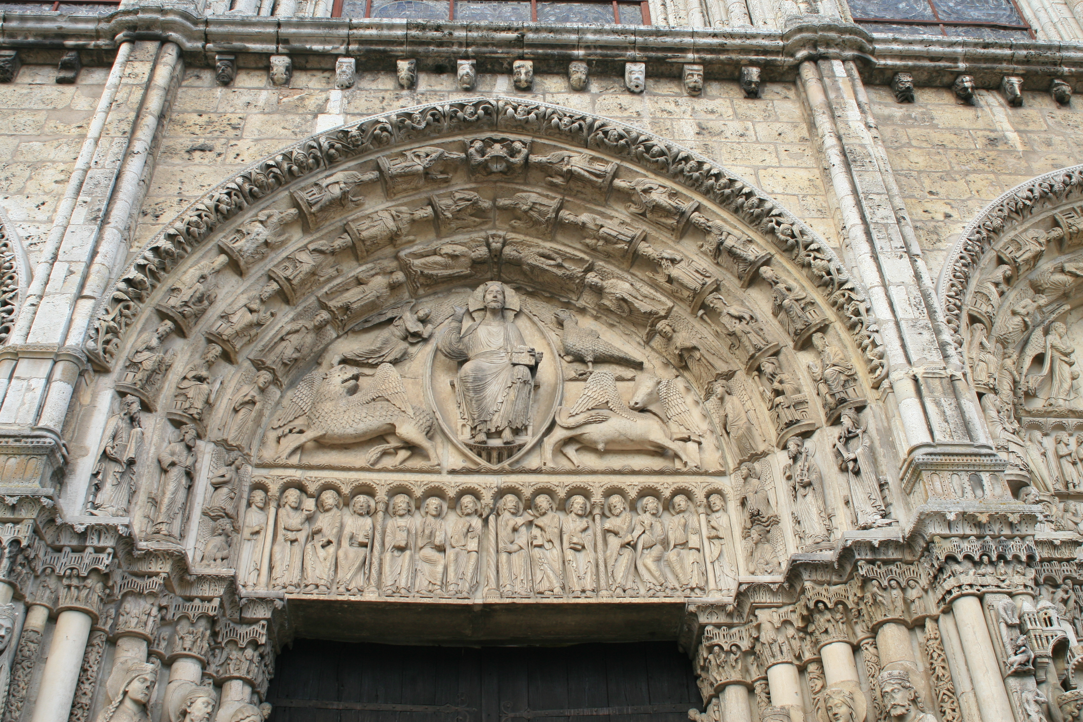 Chartres, France Tympanum of the central bay at the Royal portal of Chartres Cathedral.